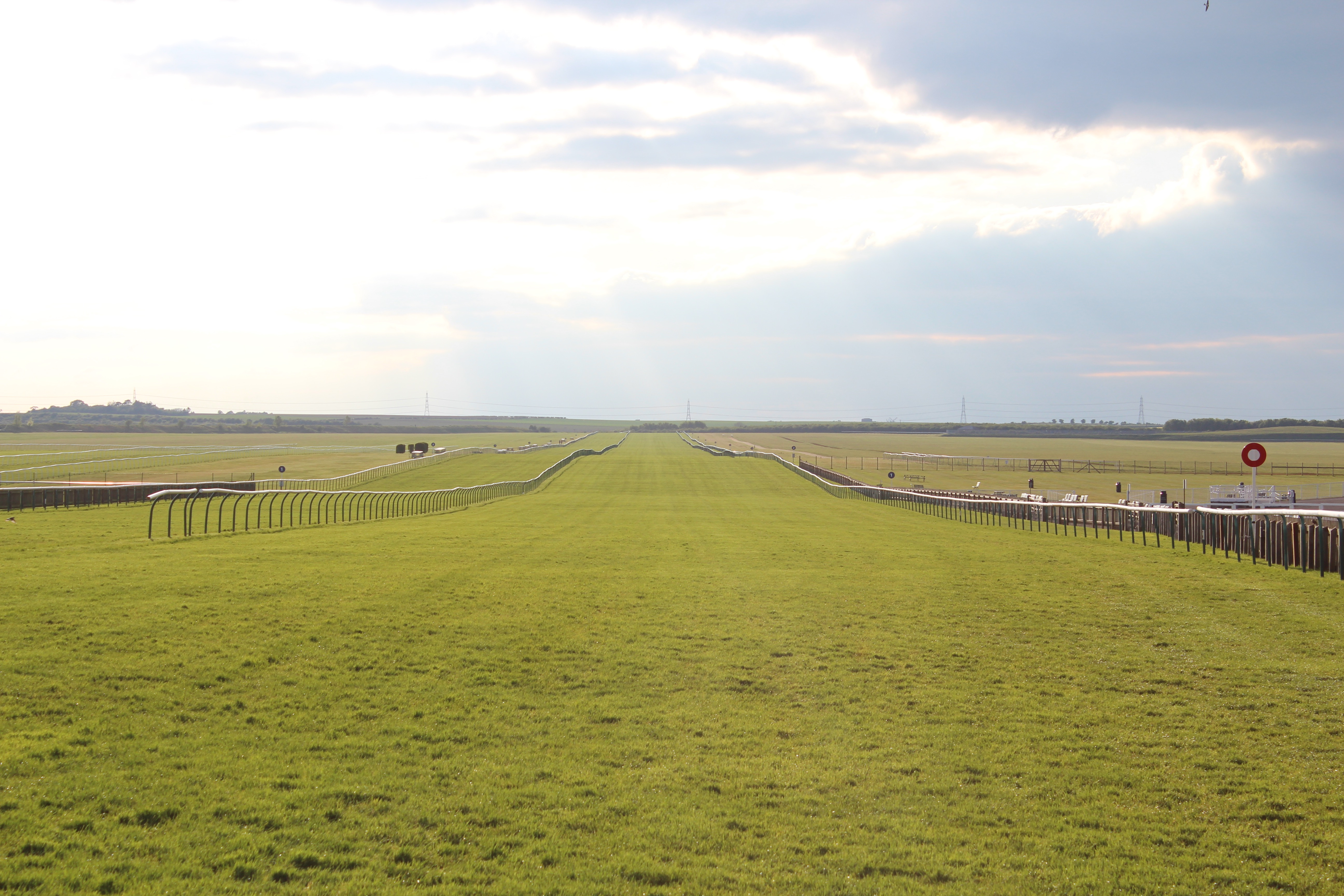 The Rowley Mile track used for the 2000 Guineas in Newmarket, UK